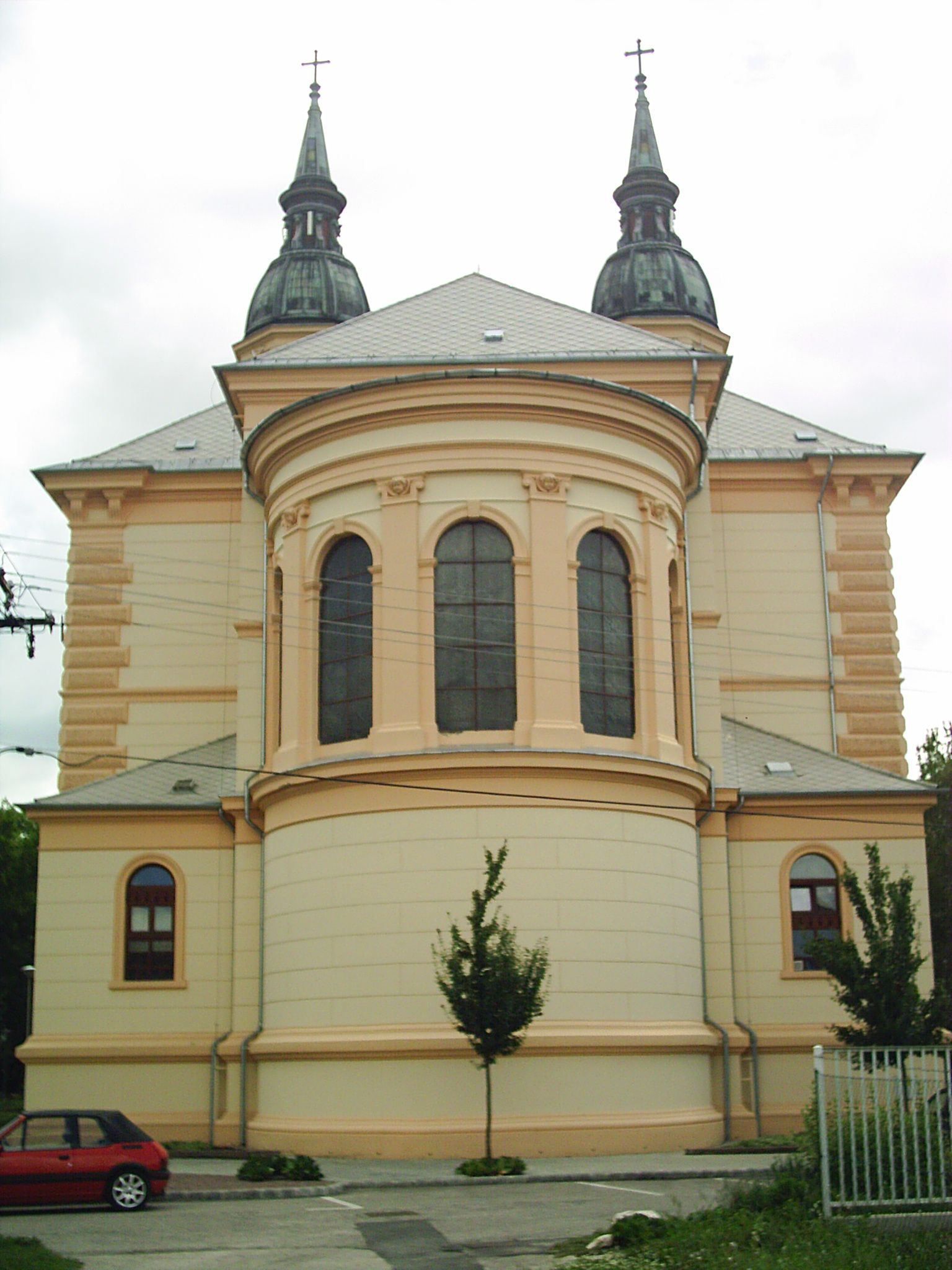 Saint Stephen of Hungary's church in Kiskunfélegyháza, built by Gyula Pártos in 1880.